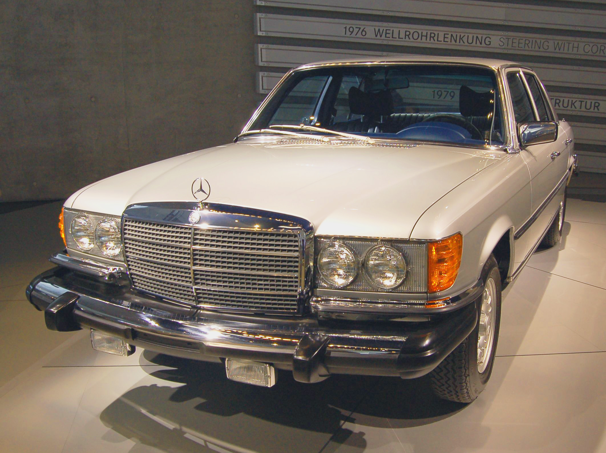 Mercedes Benz W 116 (american version)